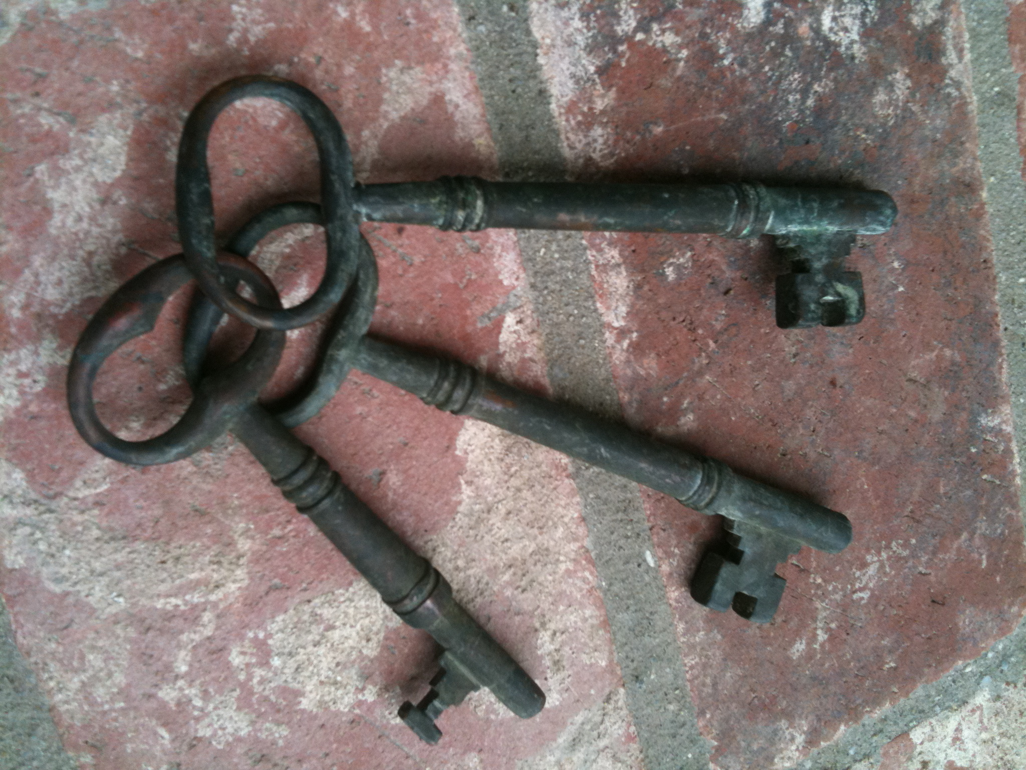 The Griffith Mansion in Yolo / Cacheville CA, built 1886. Now owned by the Tornincasa family. Original keys.